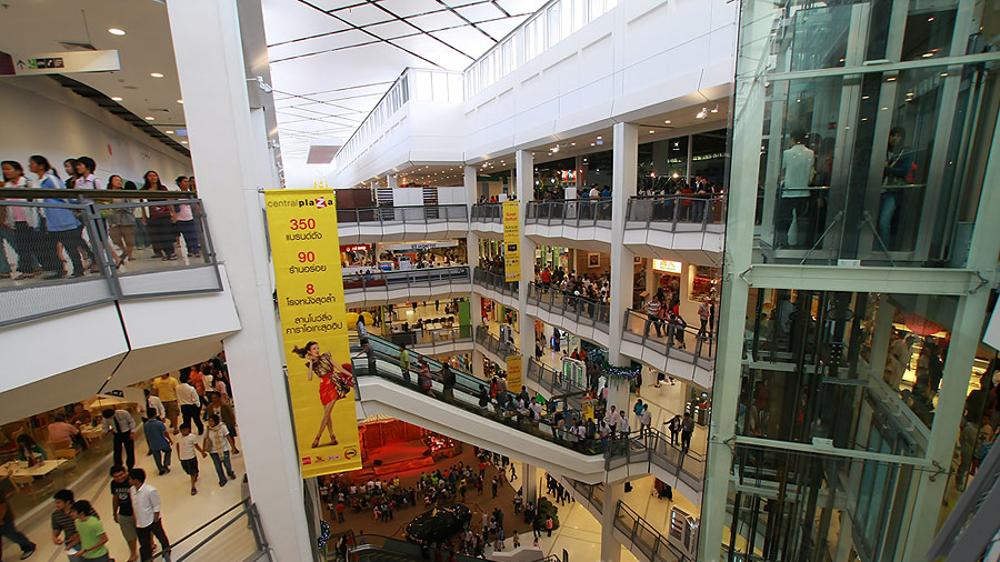 Central Plaza Khonkaen opened on December 3, 2009.